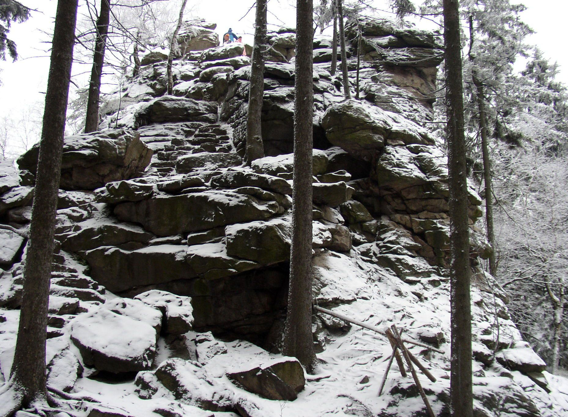 Rocks on summit of Devět skal Mt. (836 m a. s. l.) in Žďárské vrchy Mts., Czech Republic.